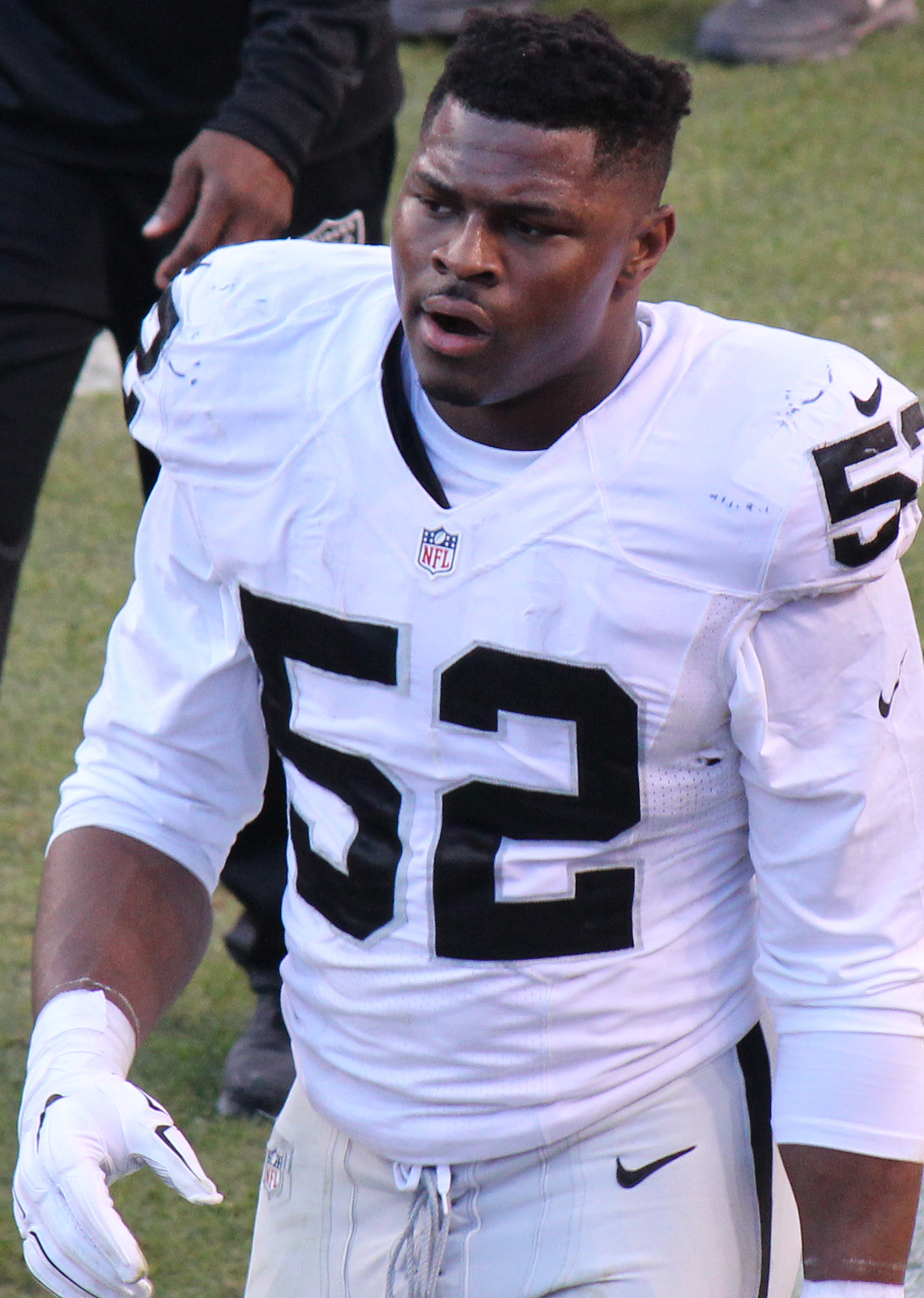 Khalil Mack, a player on the National Football League.